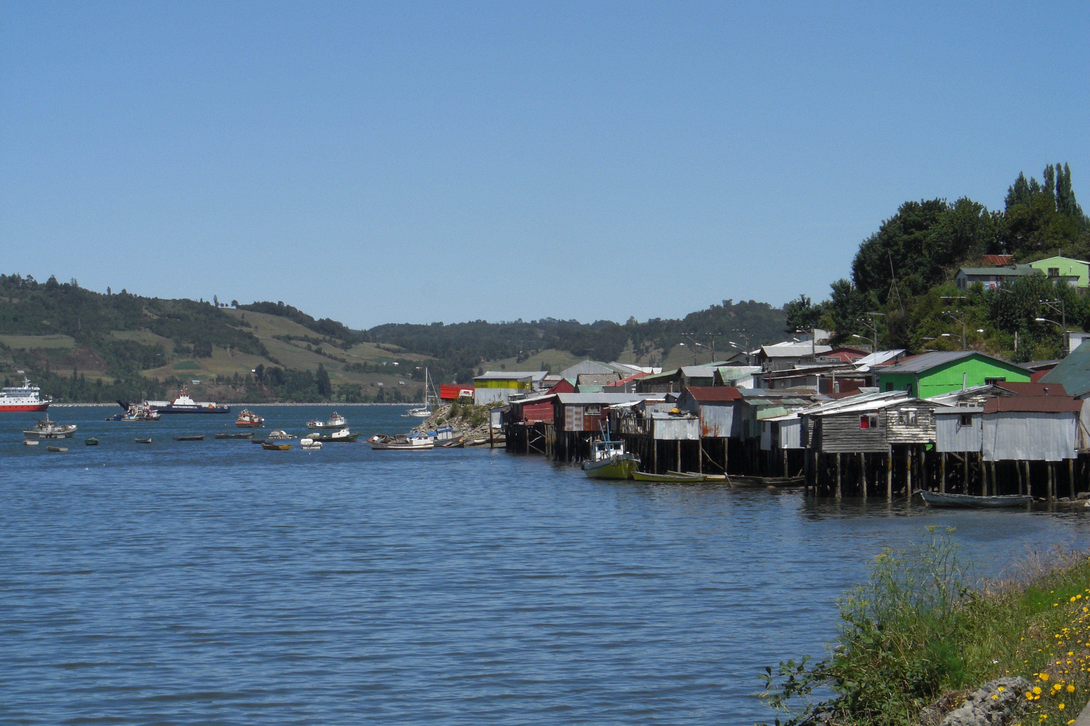 Thought the houses on stilts were kind of cool. Certainly unusual, even for Chile.